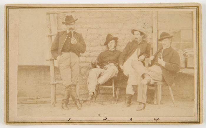 Four soldiers at rest, each identified on reverse. F. G. Adams, 1 "Cavalry"; Tom McDougle, 32 "Infantry" (McDougle was later at the Battle of the Little Big Horn but was not with Custer himself and survived the battle); Capt. Fargus, 32nd Infantry; J.C., 32nd Infantry (J.C. stands for James Calhoun, who was later with Custer at the Little Big Horn and killed there).